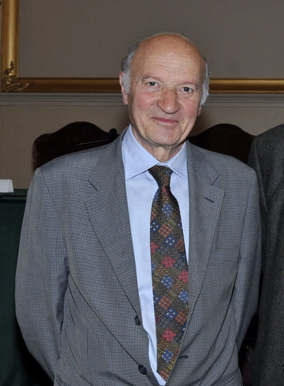 the italian philosopher Domenico Losurdo.